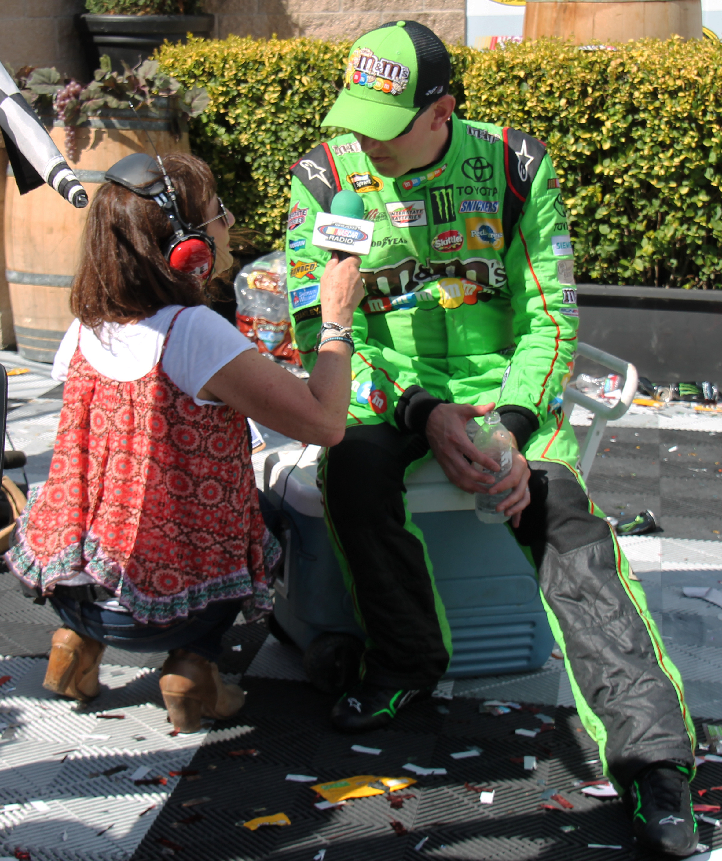 Kyle Busch interviewing with Claire B. Lang after the 2015 Toyota/Save Mart 350 in Sonoma, California